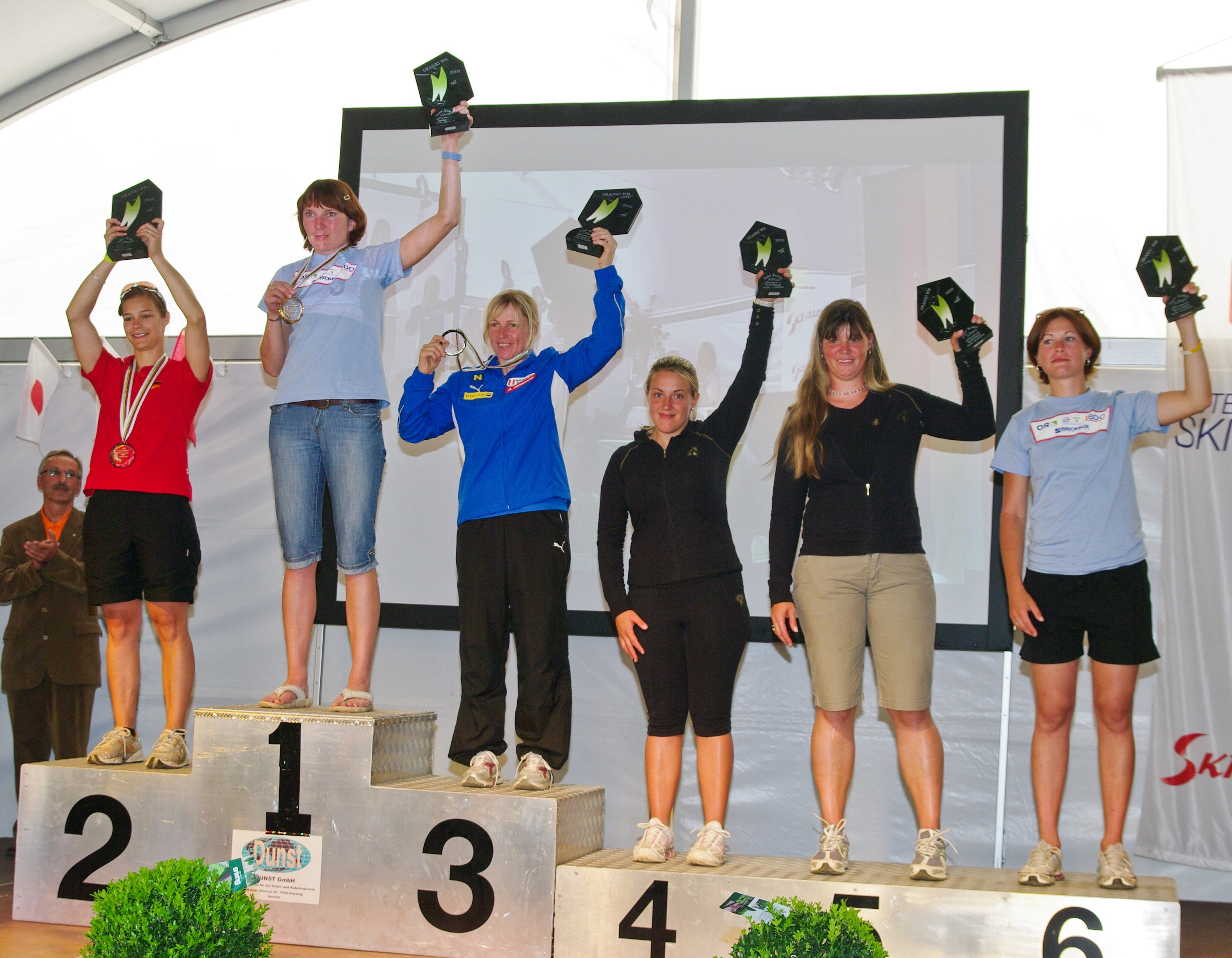 Grass Skiing World Championships 2009 in Rettenbach, Austria. Women's Super Combined, Prize Giving Ceremony: 1st Place: Zuzana Gardavská (CZE), 2nd Place: Anna-Lena Büdenbender (GER), 3rd Place: Ingrid Hirschhofer (AUT), 4th Place: Antonella Manzoni (ITA), 5th Place: Cristina Mauri (ITA), 6. Place: Petra Mlejnková (CZE)